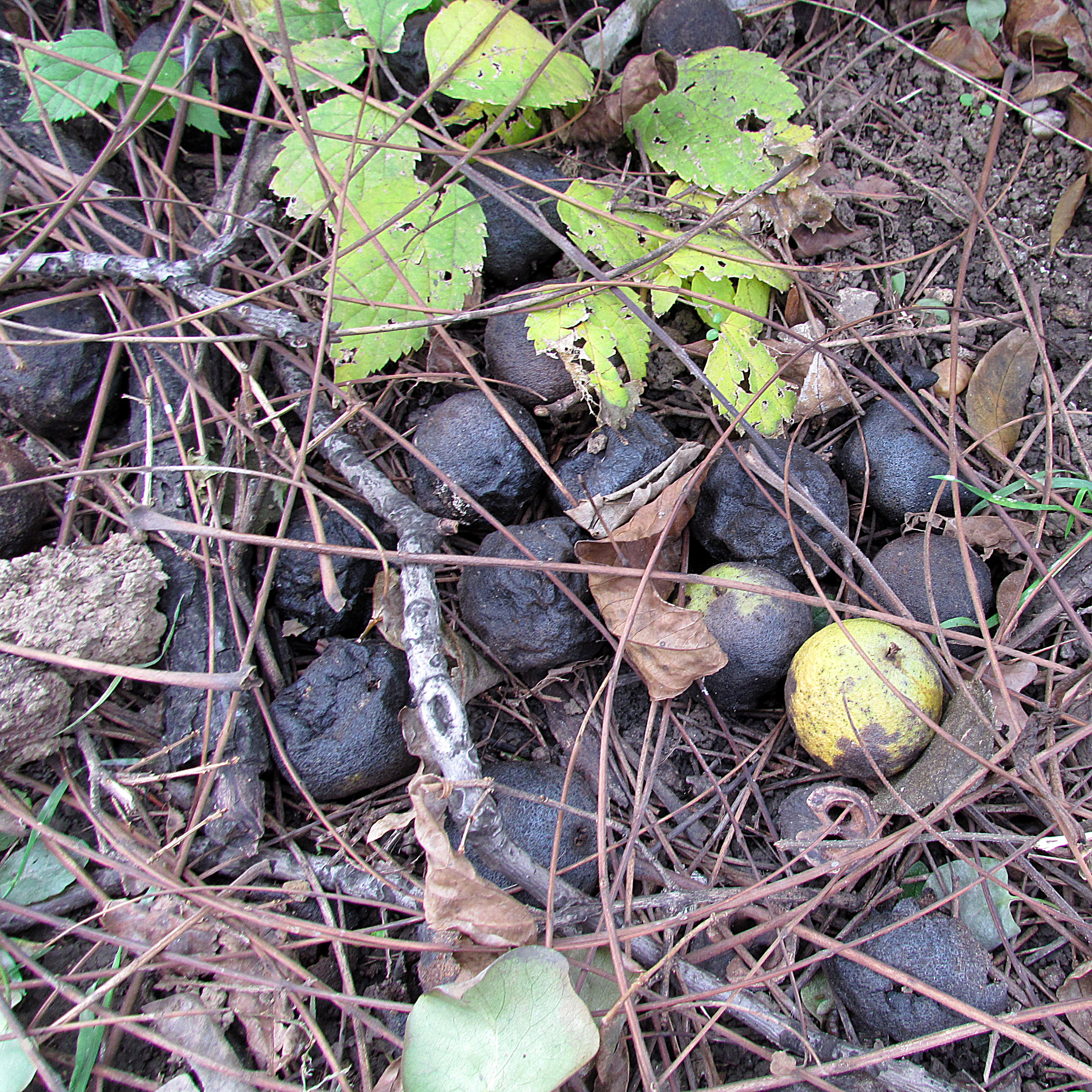 Juglans nigra fallen fruits